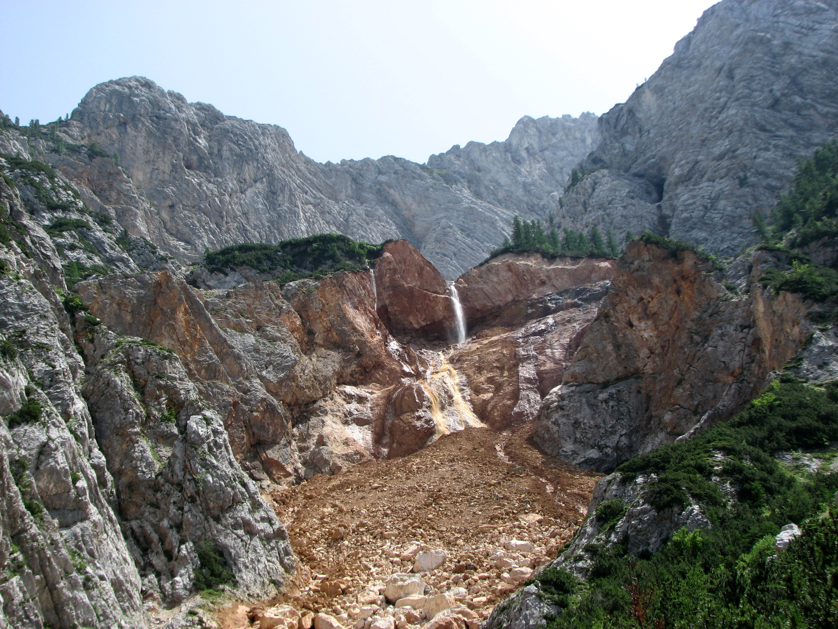 Čedca waterfall after the landslides in early spring 2008. Waterfall is situated near Jezersko in north Slovenia. Before the landslides it was the highest waterfall in Slovenia (130 meters).